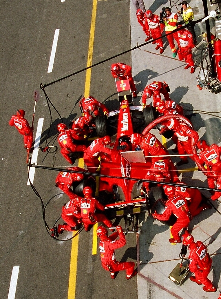 Scuderia Ferrari Pit Stop at 2000 Italian Grand Prix